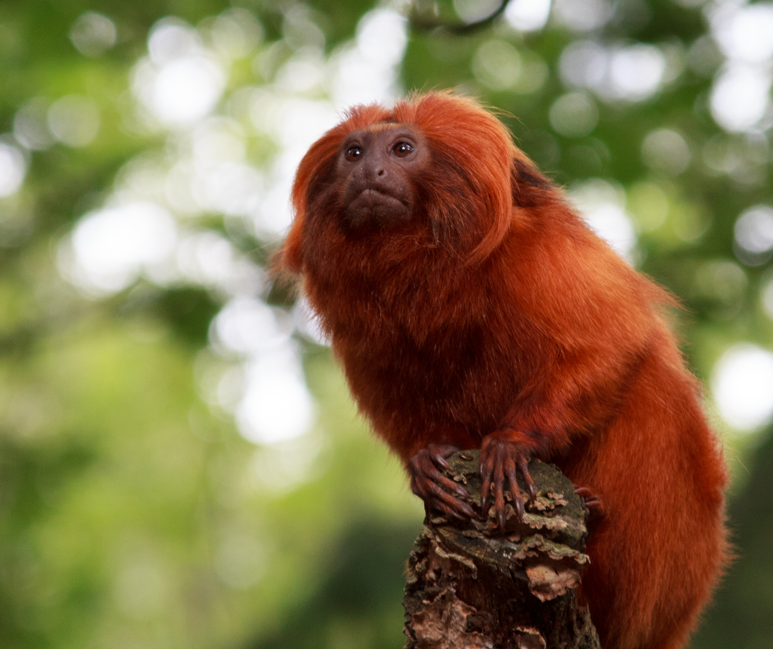 Golden lion tamarin.